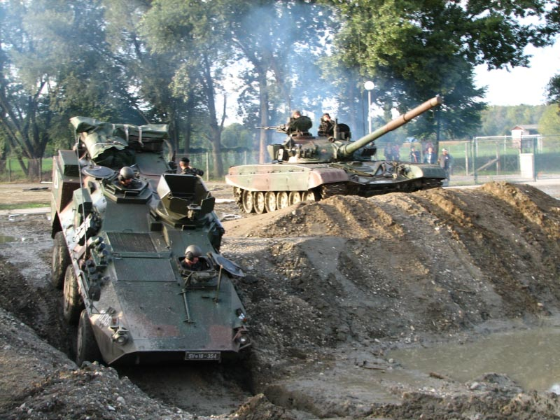 Slovenian Armoured Vehicles-Valuk and M-84